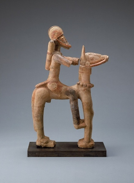 Terracotta Equestrian figure from Mali; 13th-15th century; National Museum of African Art (Washington D.C., USA)